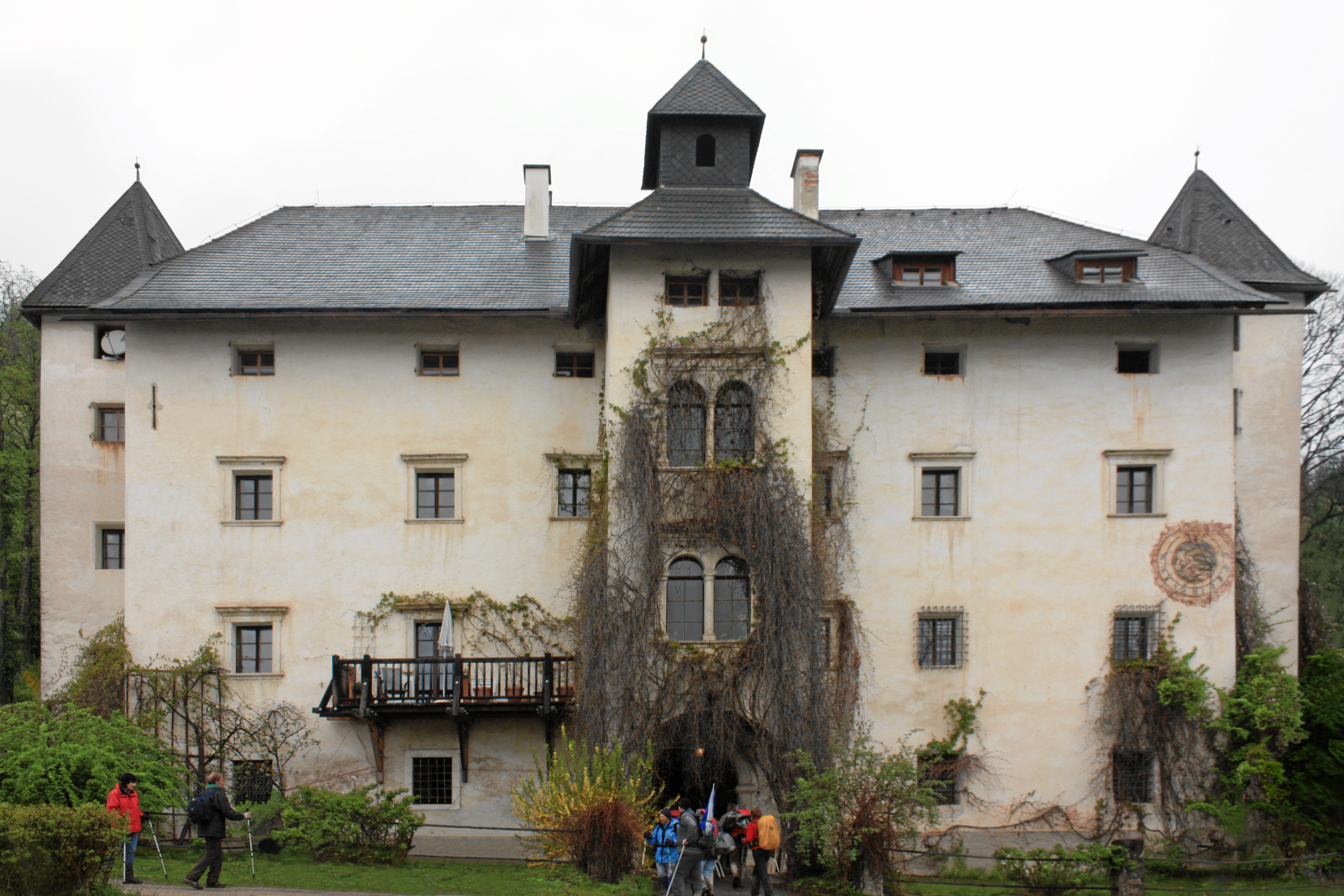 Liemberg castle, market town Liebenfels, district Sankt Veit, Carinthia, Austria, EU